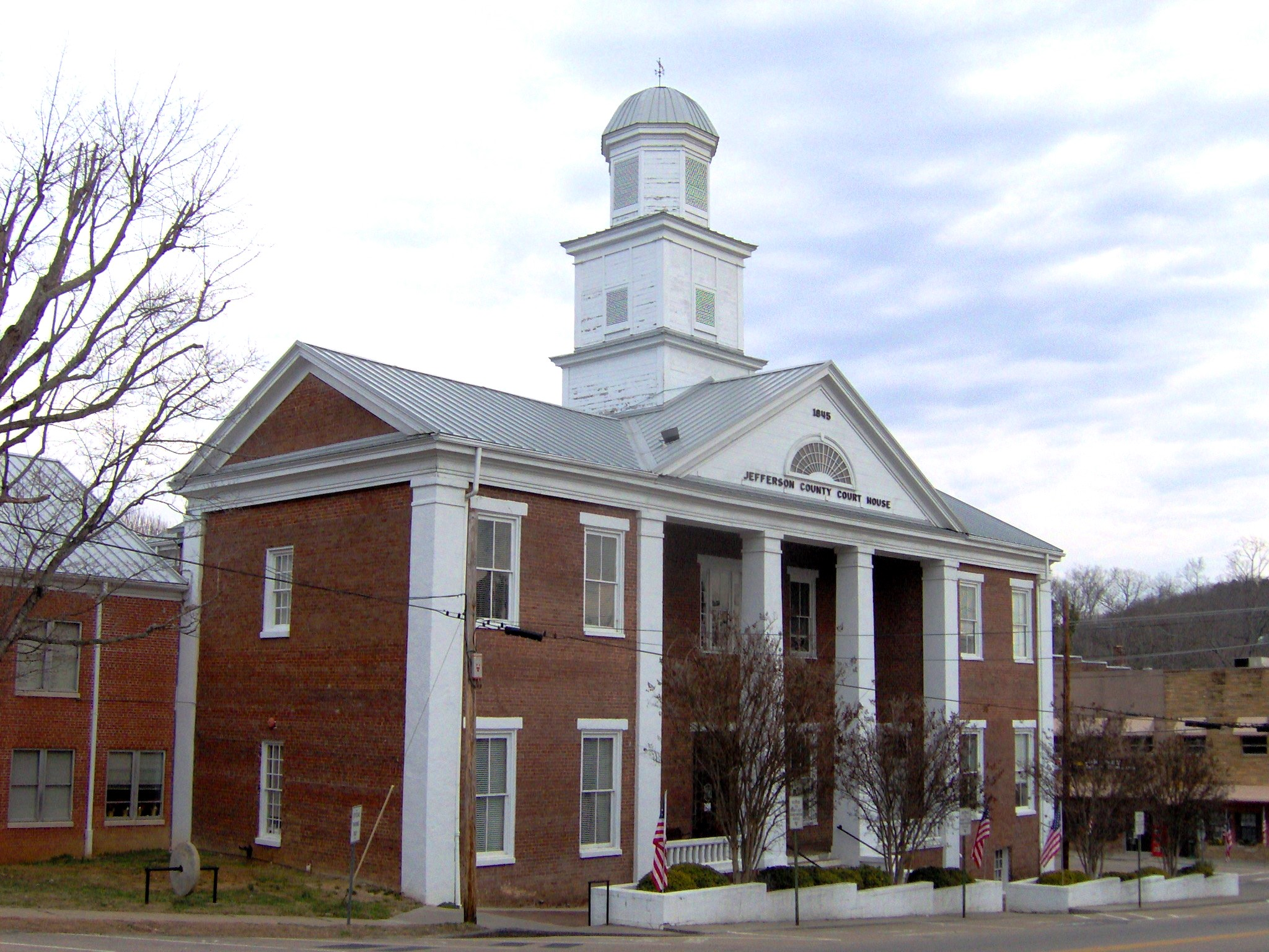 Jefferson County Courthouse in Dandridge, Tennessee, in the southeastern United States. The courthouse was built in 1845 by Hickman Brothers Construction. A county museum was added to the courthouse in 1957. The courthouse was added to the National Register of Historic Places in 1973 as part of the Dandridge Historic District.